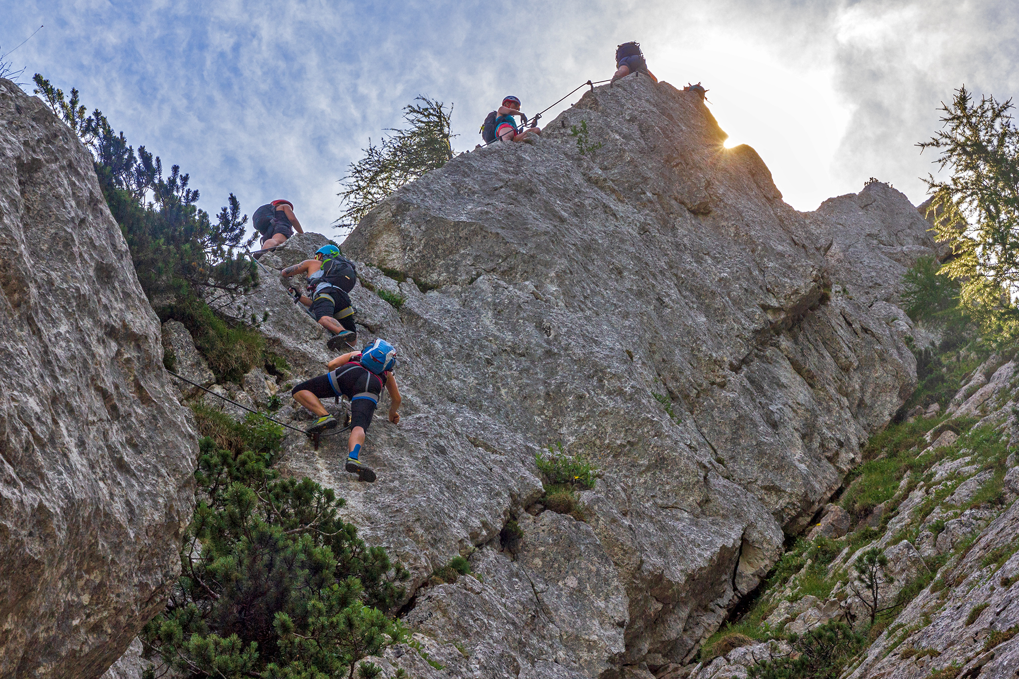 Via ferrata (fixed rope route) on the Katrin mountain (1542 m) in the Salzkammergut mountains, Austria.